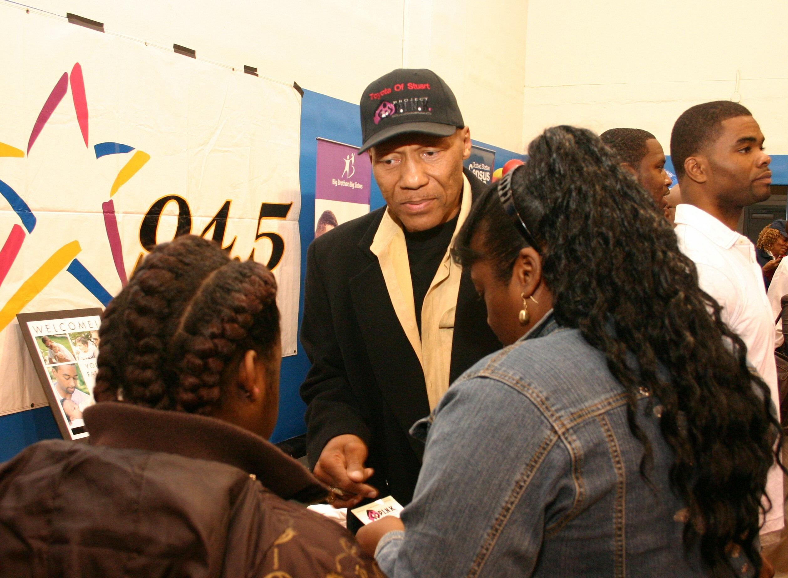 Pinklon Thomas, former heavyweight champion of the world.